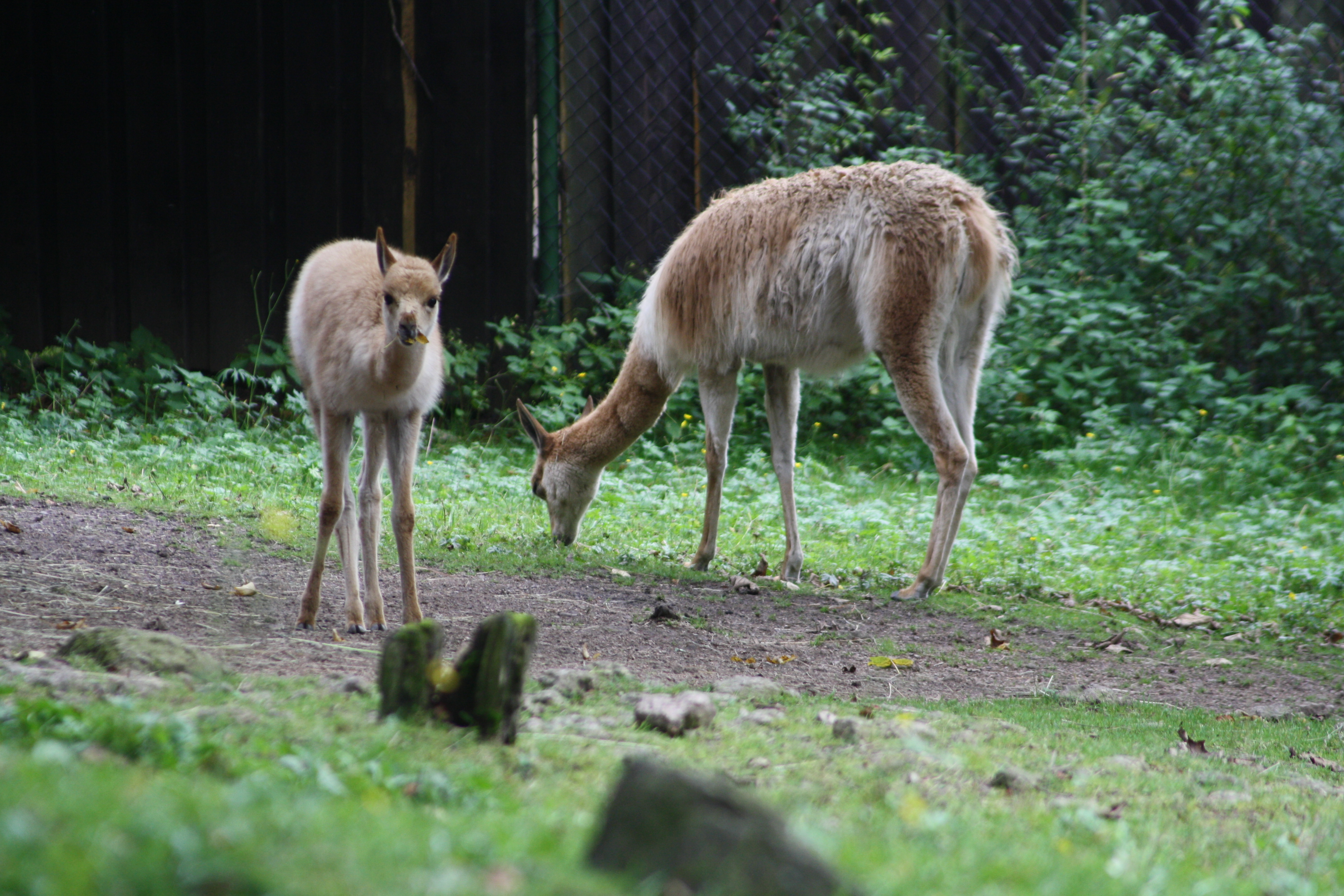 Family of Vicugna vicugna in Liberec Zoo.